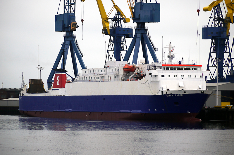 The ferry 'Stena Leader' Link at Ship Repair Quay (formerly Outfitting Wharf) in Belfast docks shortly after emerging from the adjacent Belfast Dry Dock. The ferry normally operates on the Larne-Fleetwood route and was built in 1975.